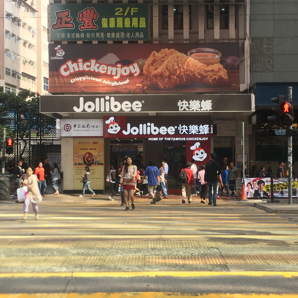 Jollibee Hong Kong October 2017